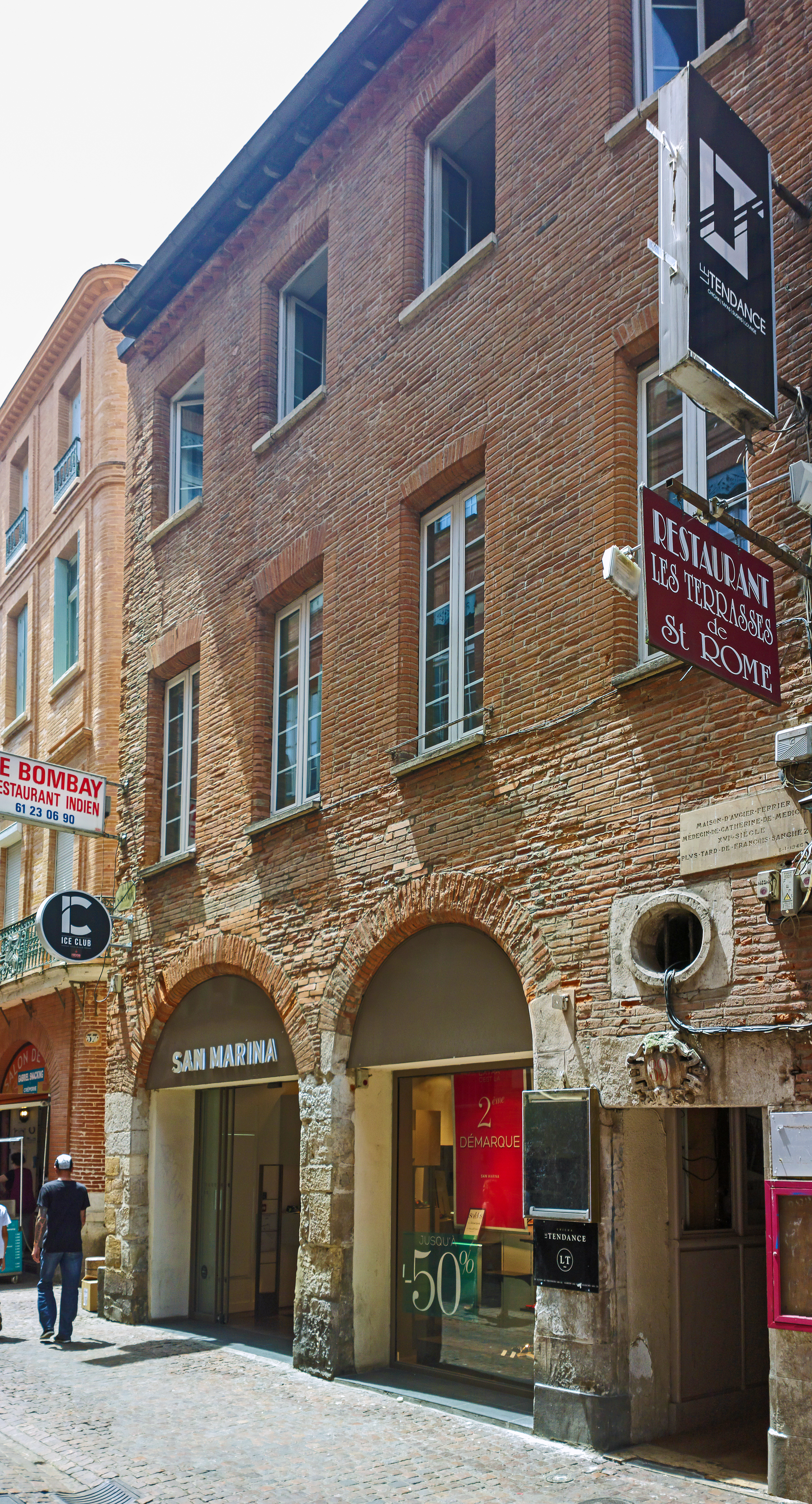 Maison d'Augier Ferrier- facade on Rue Saint-Rome in the historic center of Toulouse. This building was the home of d‘Augier Ferrier (medical doctor of Catherine de Medici) and the renaissance philosopher Francisco Sanches.